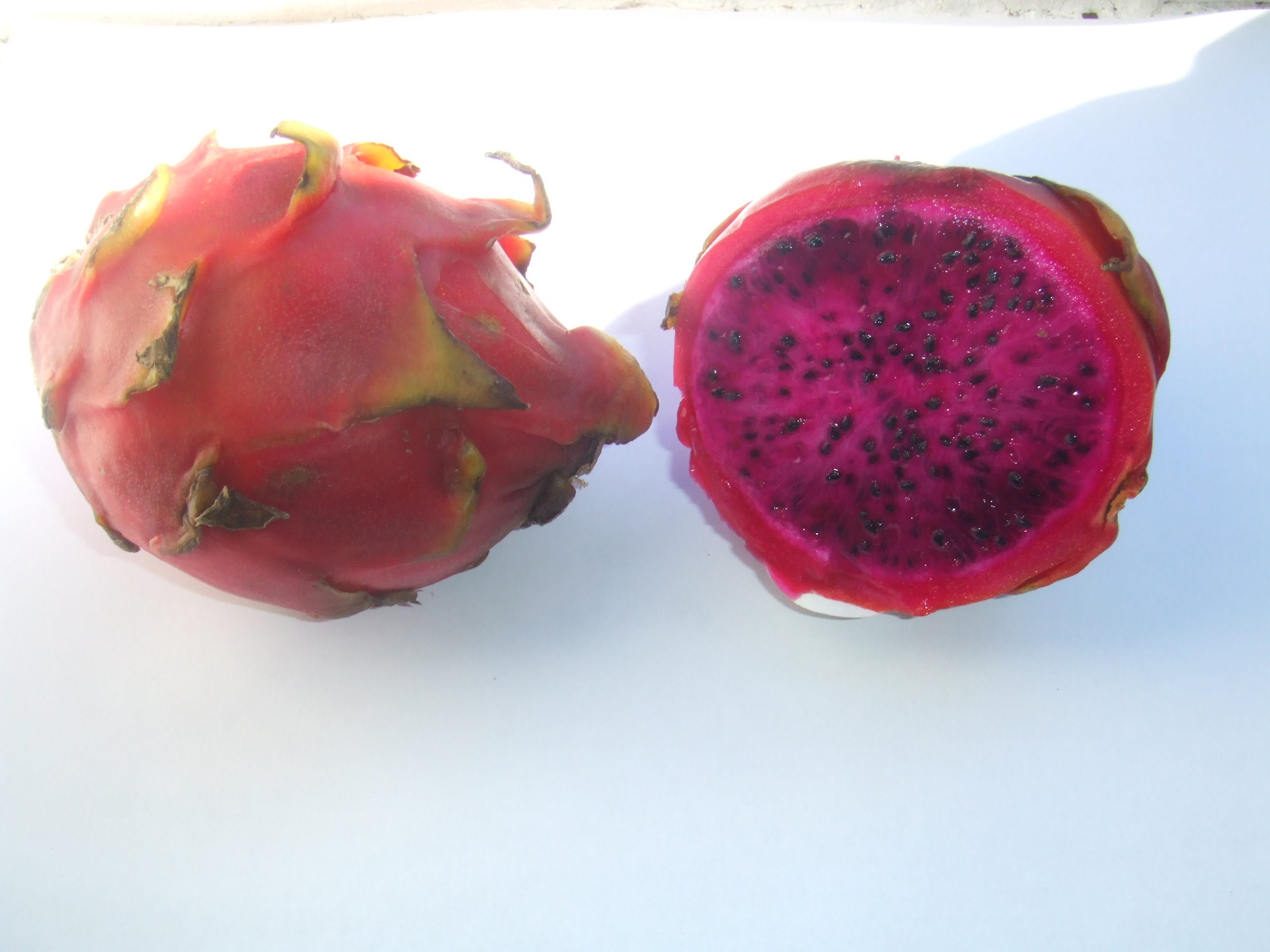 Fruit from Hylocereus polyrhizus bought at the Binnenrotte market in Rotterdam, The Netherlands